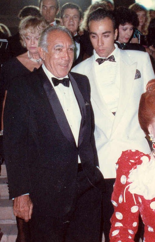 Anthony Quinn and his son Lorenzo at the 40th Emmy Awards, August 1988 (cropped from original)